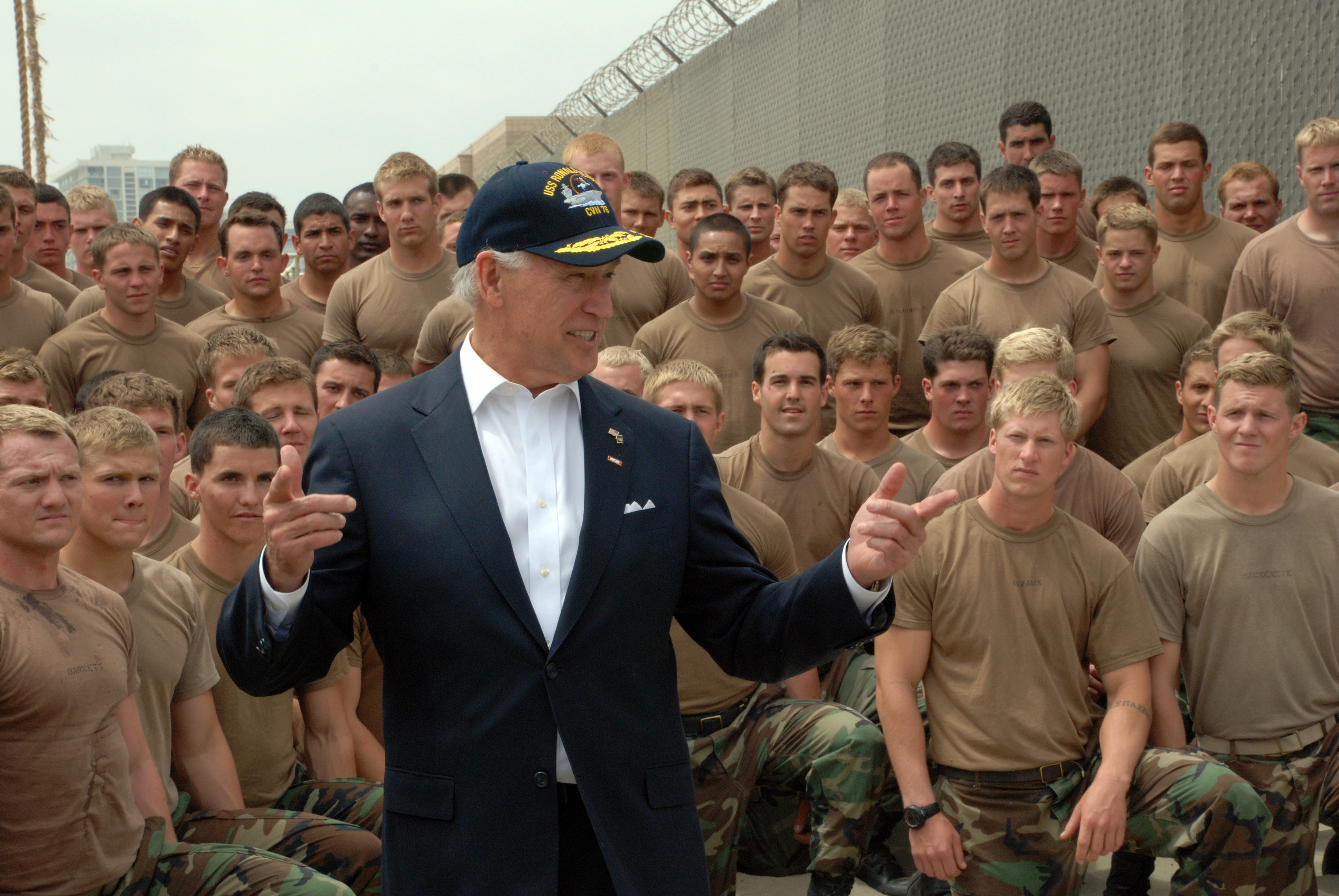 CORONADO, Calif. (May 14, 2009) Vice President Joe Biden meets with Basic Underwater Demolition/SEAL (BUDS) students at Naval Amphibious Base Coronado. The Vice President and his wife, Dr. Jill Biden, visited several commands during a familiarization tour of naval facilities in the San Diego area. (U.S. Navy photo by Mass Communication Specialist First Class Ryan Valverde/Released)